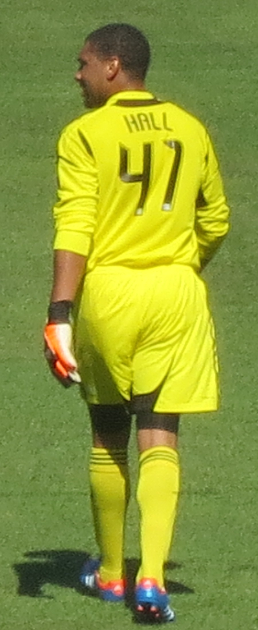 Frederick Hall of Toronto Football Club in the first half of friendly with English Premier League team Liverppool Football Club at Rogers Centre